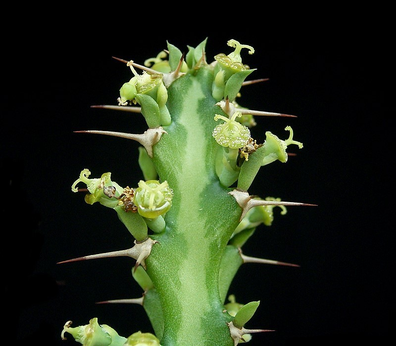 Euphorbia knuthii